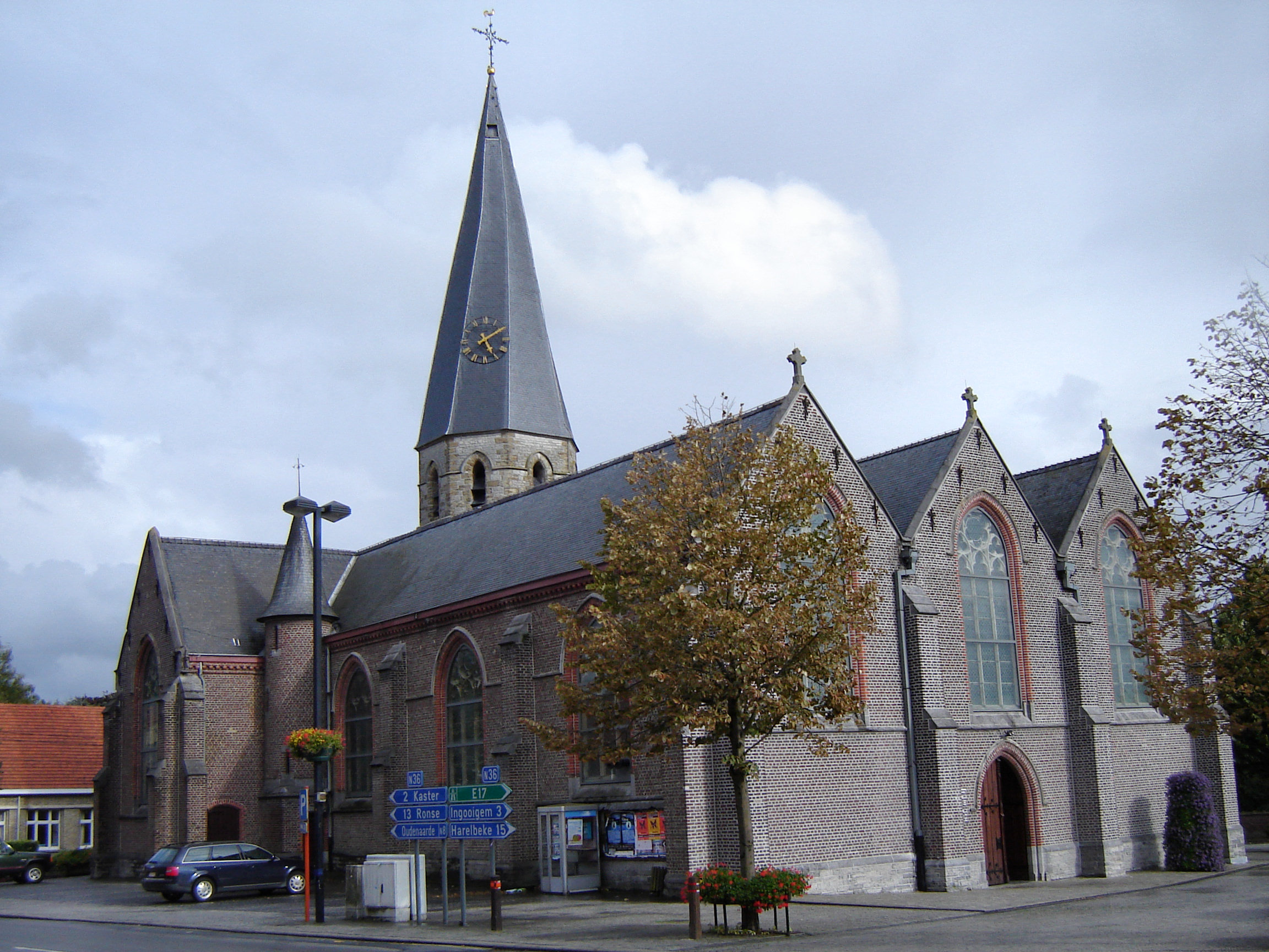 Church of Saint Arnold in Tiegem. Tiegem, Anzegem, West Flanders, Belgium